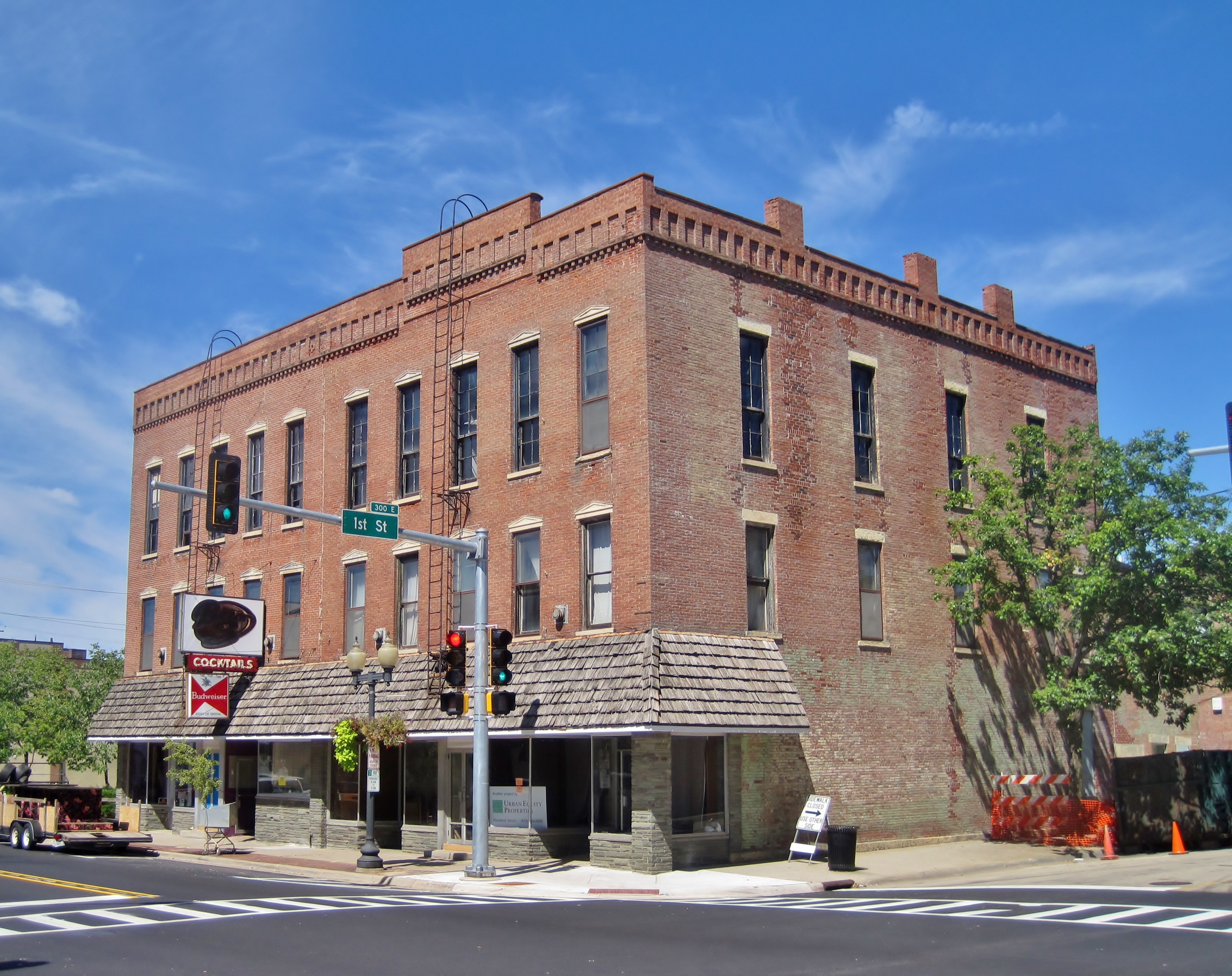 Commercial Building in the East Rockford Historic District (c. 1857). It is the best preserved commercial building from that timeframe in the area.